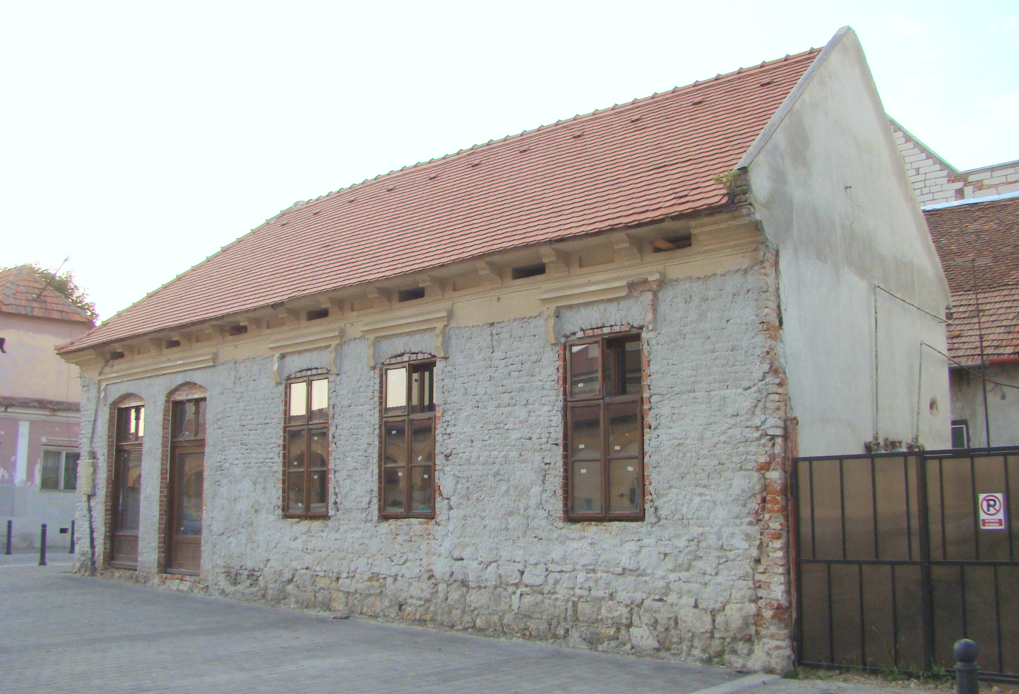 House, historic monument, Unirii street, number 9, Alba Iulia, Alba county, Romania